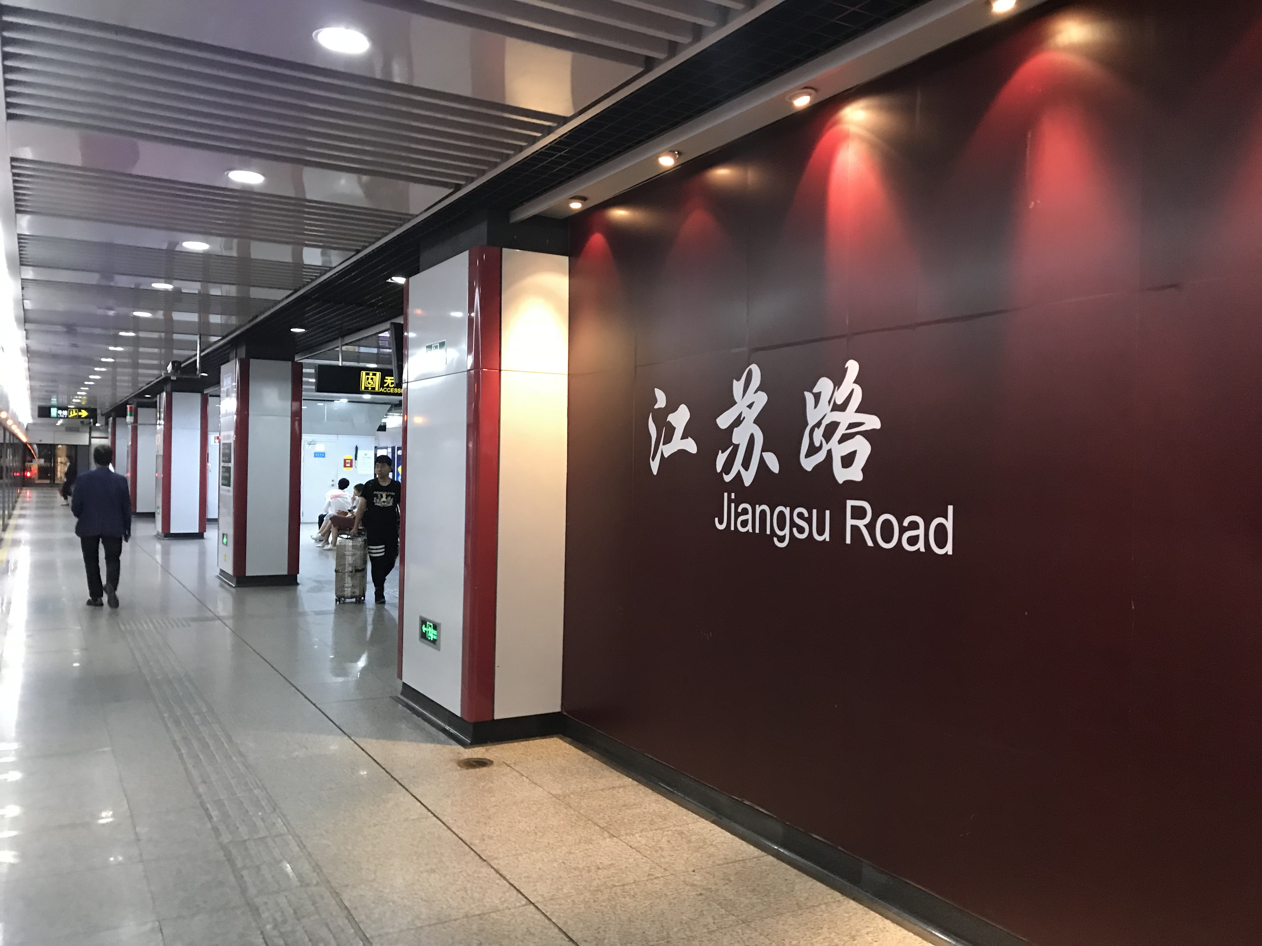 201805 L11 Nameboard of Jiangsu Road Station